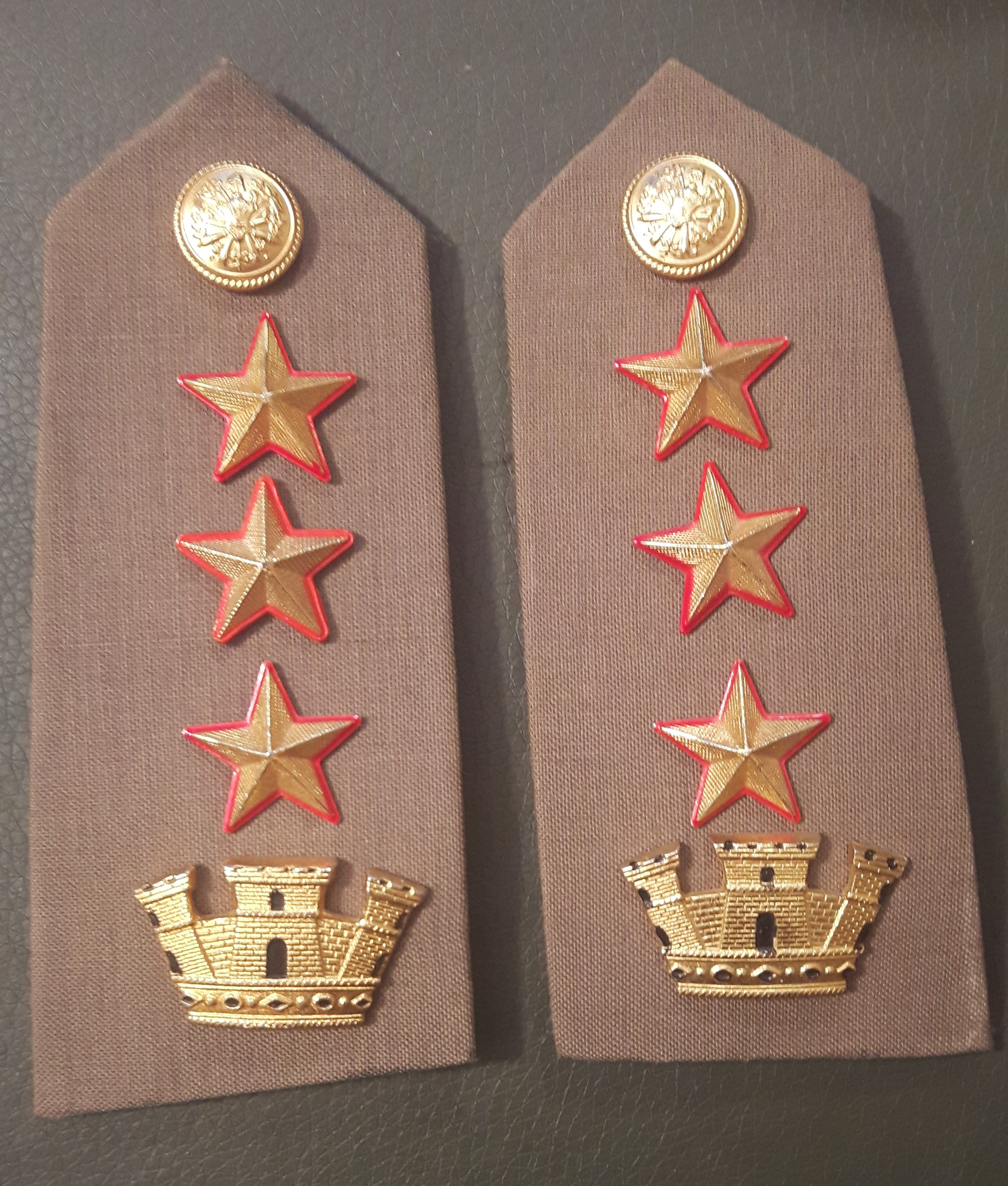 Modern military Italian Army's epaulettes of the rank of Commander Colonel of a Regiment (belonged to Colonel Michele Cherchi)